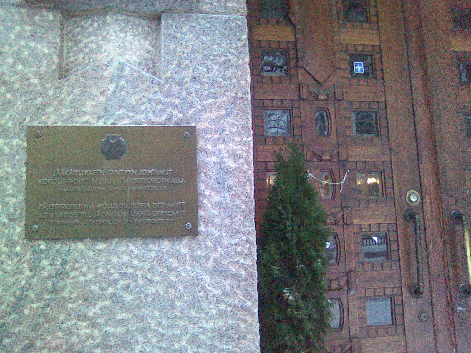 A plaque marking the birthplace (1914) of Jäger Movement, at the house of the North Ostrobothnian Nation (a provincial student society).